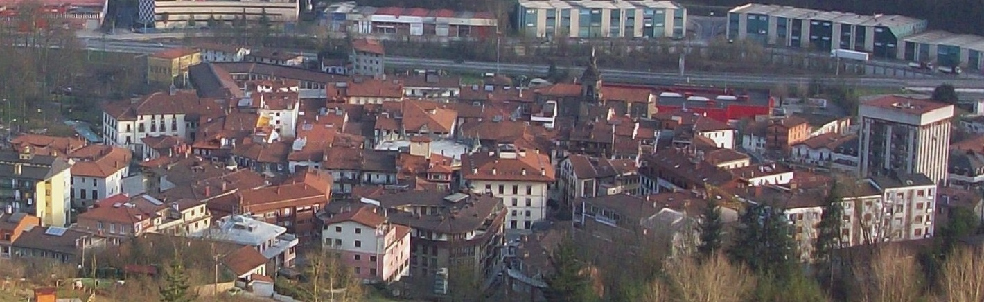 Ordizia, Gipuzkoa, Basque Country